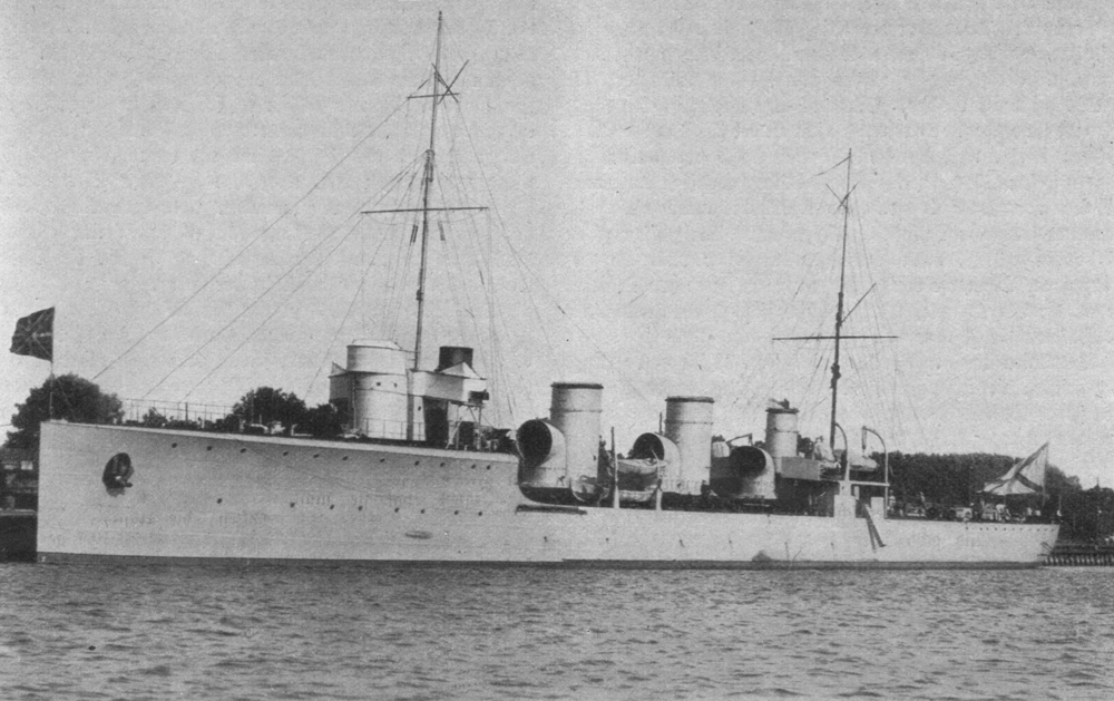 The Russian destroyer Novik (launched 1911).